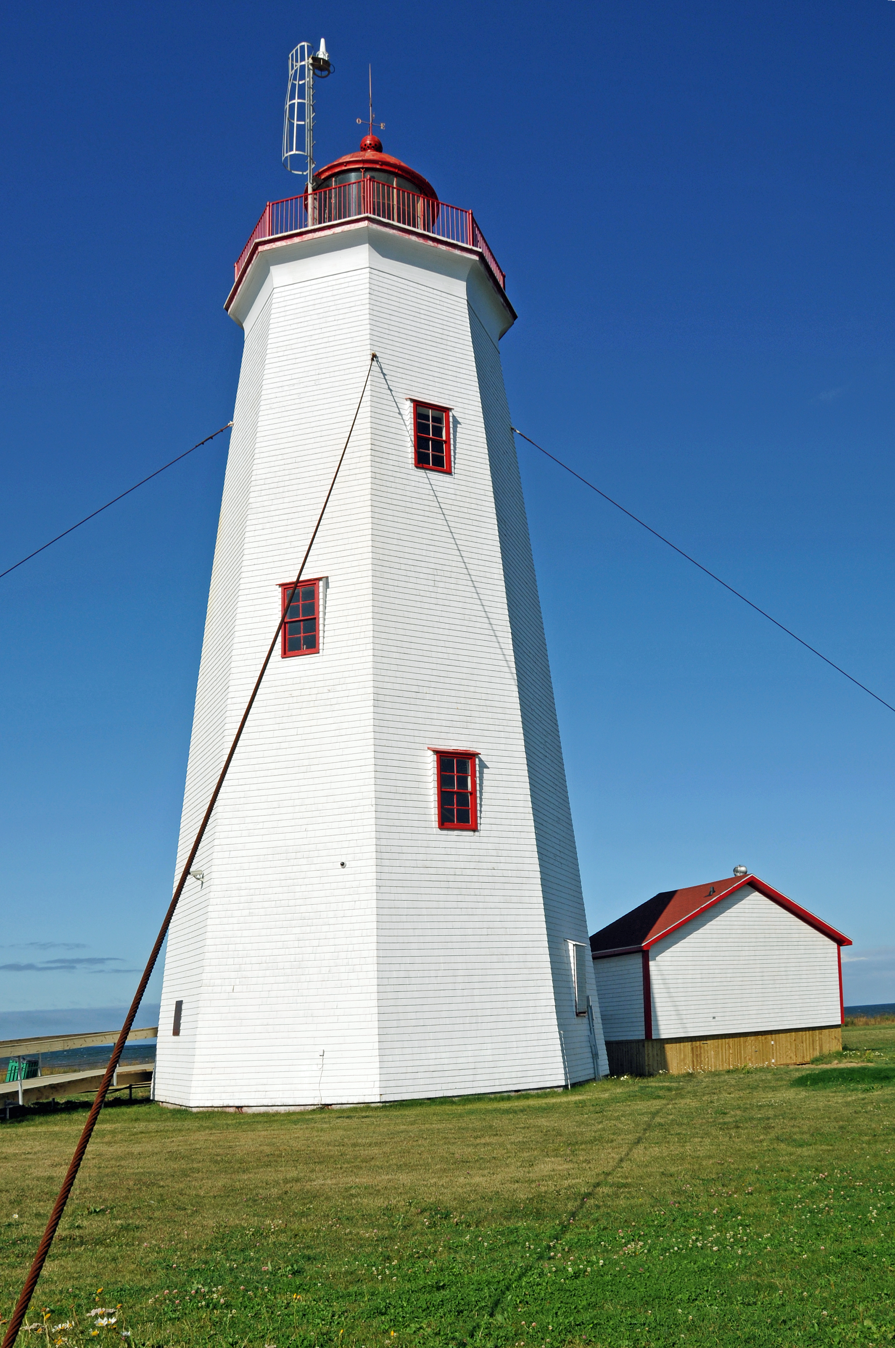 Miscou Island Lighthouse This lighthouse was built in 1856 at the southern entrance to Chaleur Bay by Quebec Trinity House, which then supervices navigation on the St. Lawrence River and Gulf. Considered a major coastal aid it merited the subsequent installation of a powerful dioptric light and a diaphone fog alarm. The octagonal tower of hand-sawn timbers, shingled on the outside, was originally 74 feet in height and was extended in 1903 to 80 feet. This lighthouse, substantially in its original state, is among the oldest in the Gulf of St. Lawrence region. The lantern at Miscou Island houses a functioning third-order Fresnel lens, the only Fresnel lens still operating in an authentic lighthouse in New Brunswick. After an environmental cleanup in 2008, the province undertook a large scale project to make this a major tourist destination in the region. A paved parking area (large enough for tour buses), a deck around the lighthouse and washroom facilities in addition to a large grass area are completed.